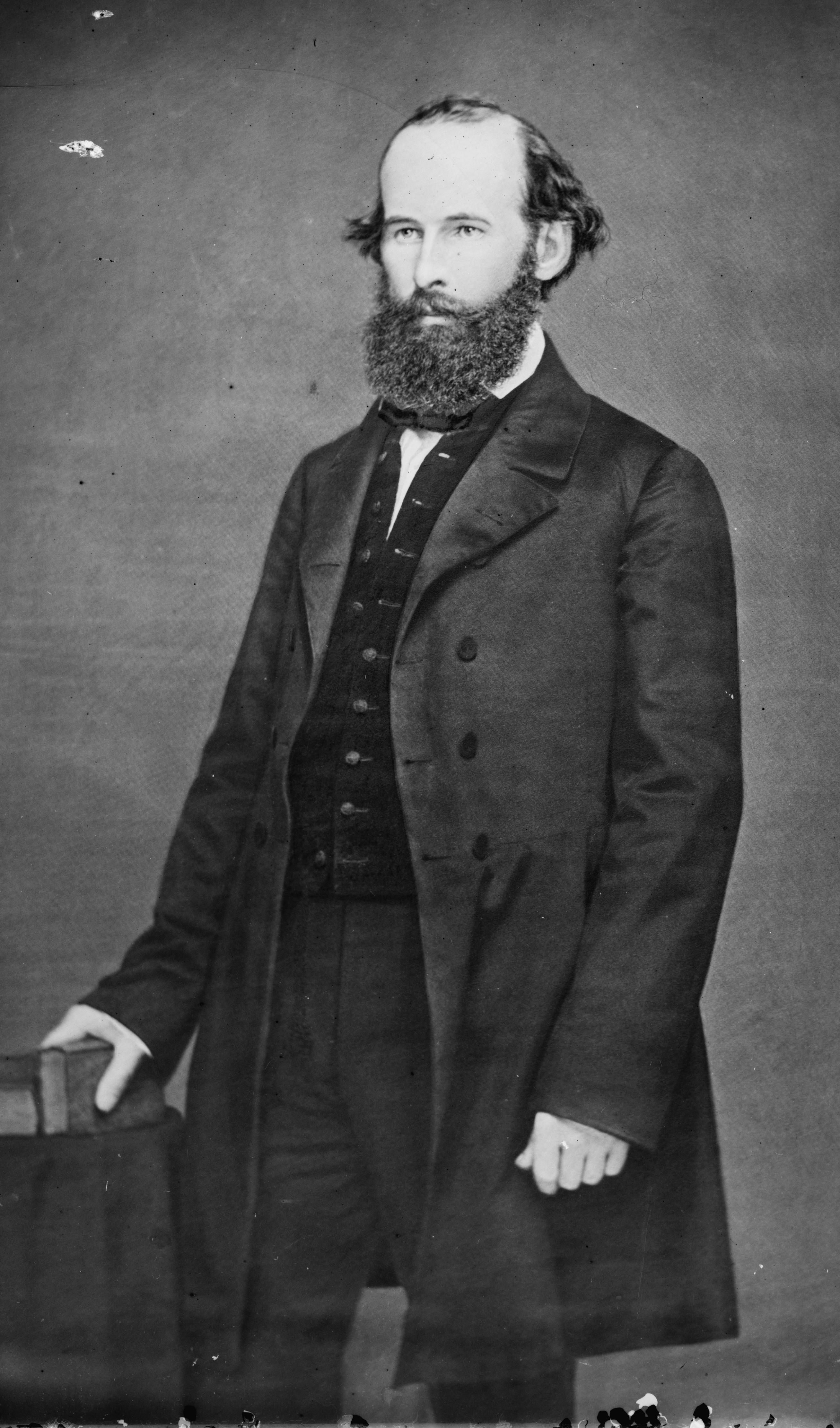 Eli Thayer. Library of Congress description: "Hon. Eli Thayer of Mass."